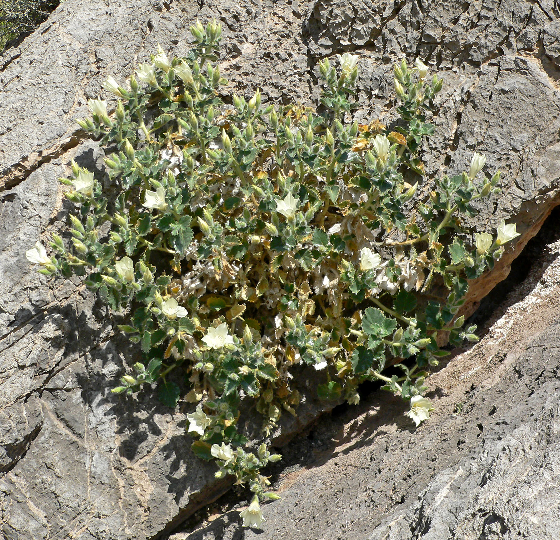 Photo of Eucnide urens in the desert at the west end of Cheyenne Ave, Las Vegas, Nevada (Lone Mountain area)